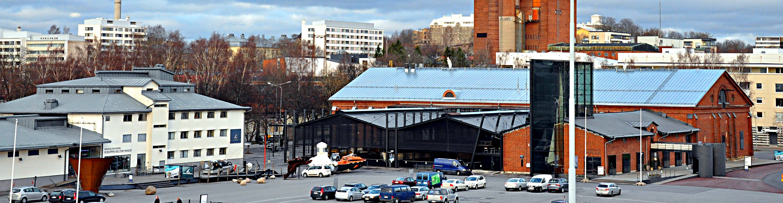 Museum's Panorama from S/S Bore